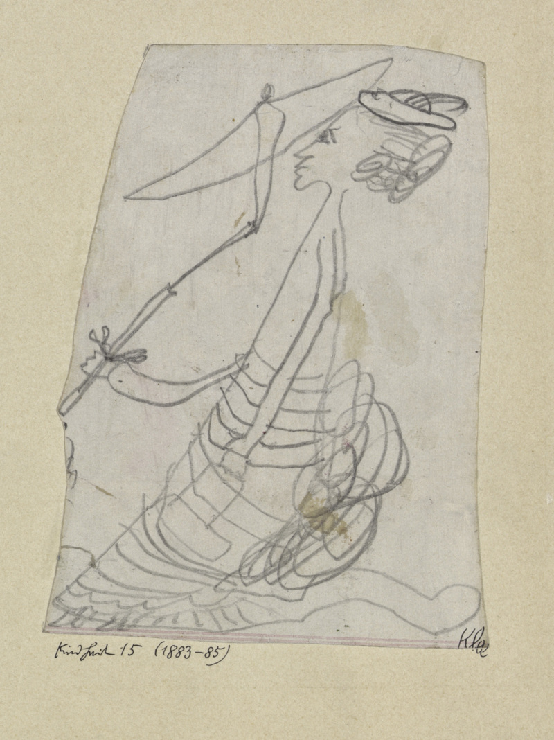 Children's drawing of a lady with a parasol, made in 1883-1885 by the 4-6 year old Paul Klee, pencil on paper on cardboard, 11,2 x 6,4 / 8,2 cm, located at Zentrum Paul Klee, Bern.